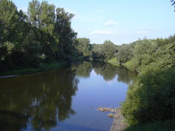 The Ohře River as seen from a bridge near Budyně nad Ohří.